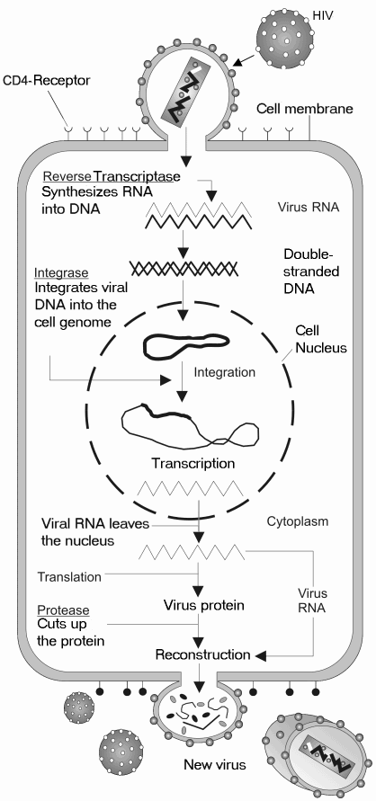 Cycle only, no structure